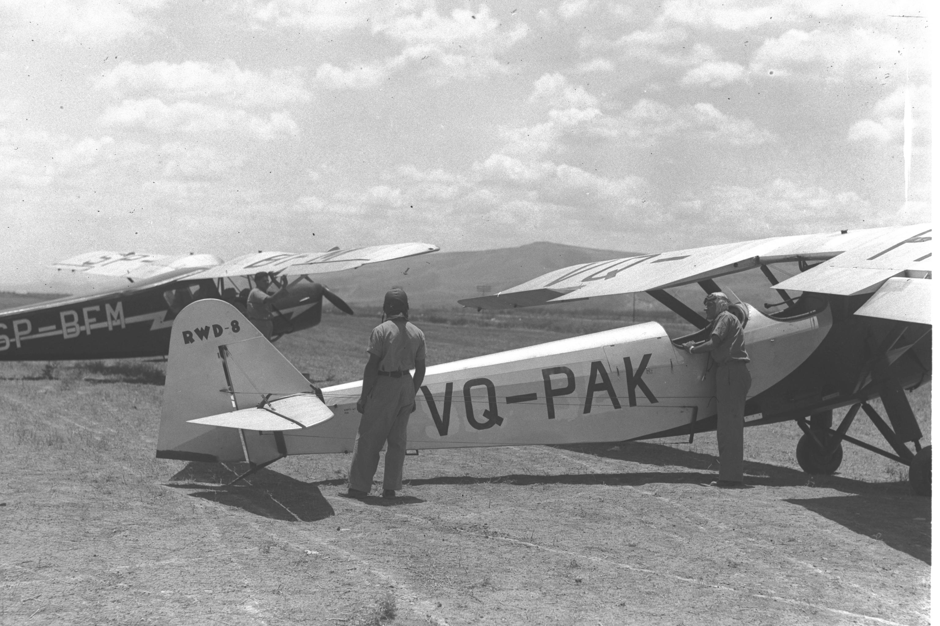 LIGHT SINGLE-ENGINE PLANES USED BY THE "AVIRON" COMPANY FOR PILOTS TRAINING OF HAGANA MEMBERS IN THE JORDAN VALLEY NEAR KIBBUTZ AFIKIM. מטוסים זעירים חד מנועיים של חברת "אווירון" לשימוש חניכי קורס טייס של ההגנה בבקעת הירדן, ליד קיבוץ אפיקים.